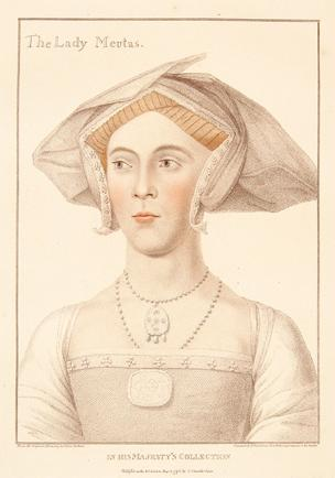 Stipple engraving by Francesco Bartolozzi after a sketch by Hans Holbein the Younger of Lady Meutas, wife of Sir Peter Meutas. The Holbein original is in the collection of HM Queen Elizabeth II.